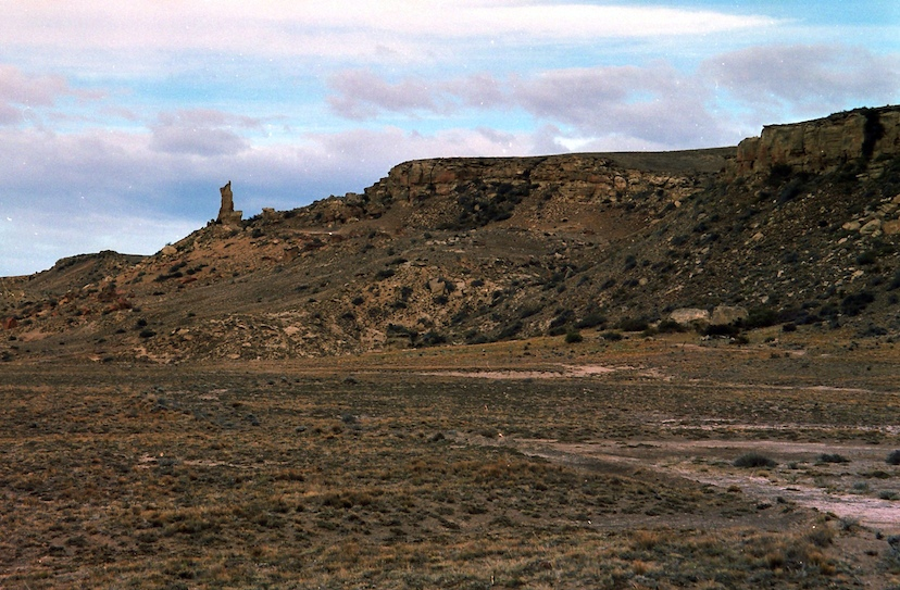 Landscape at Ruta 40 near La Leona (Santa Cruz - Argentina)